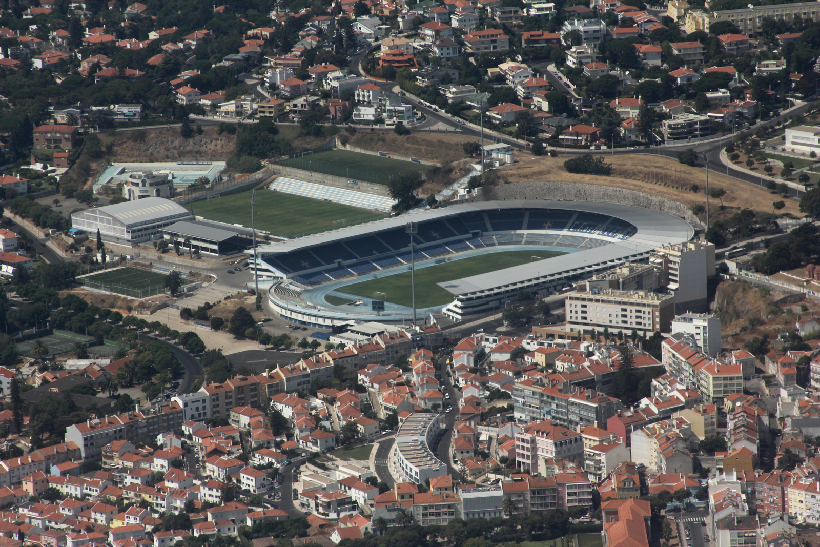 Aerial view of Estádio do Restelo multi-purpose stadium in Lisbon